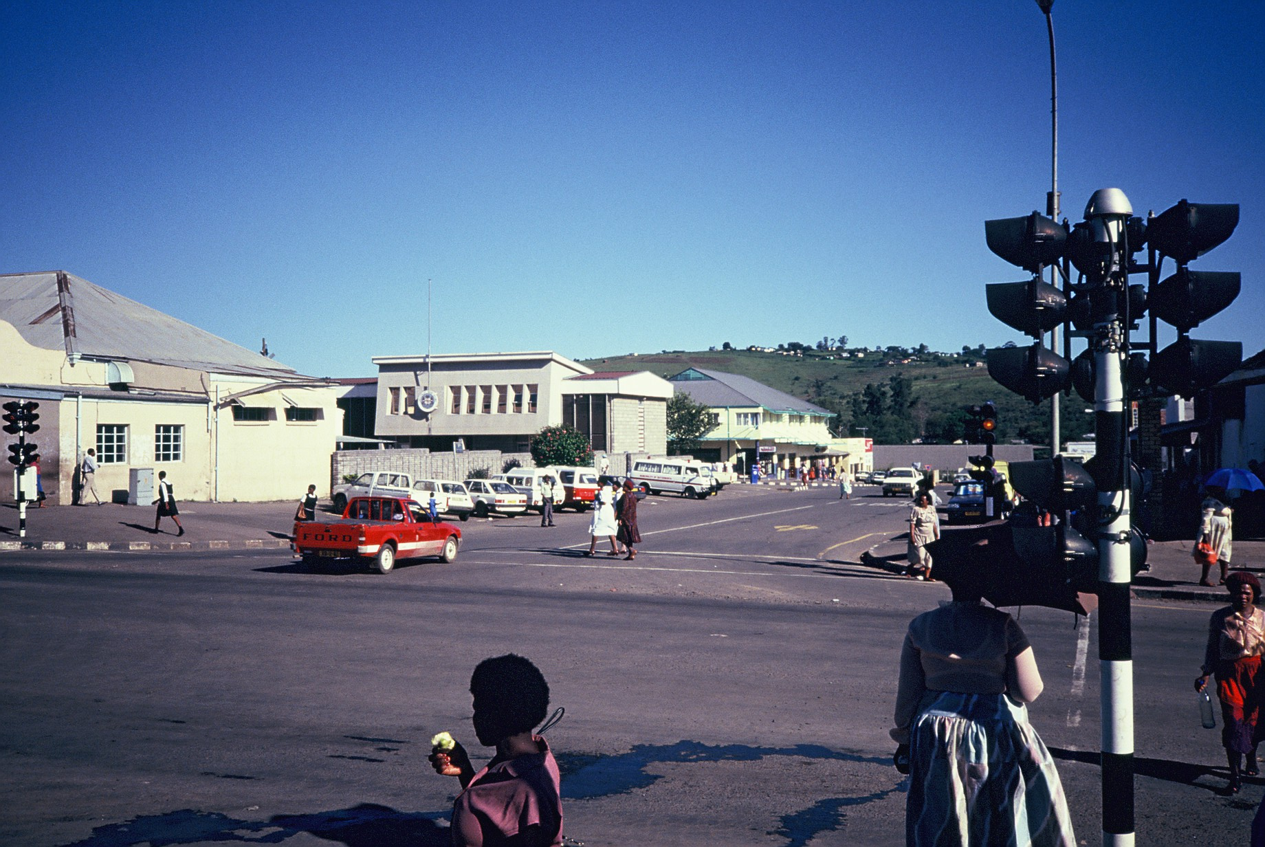 ButterworthIsiXhosa: Gcuwa